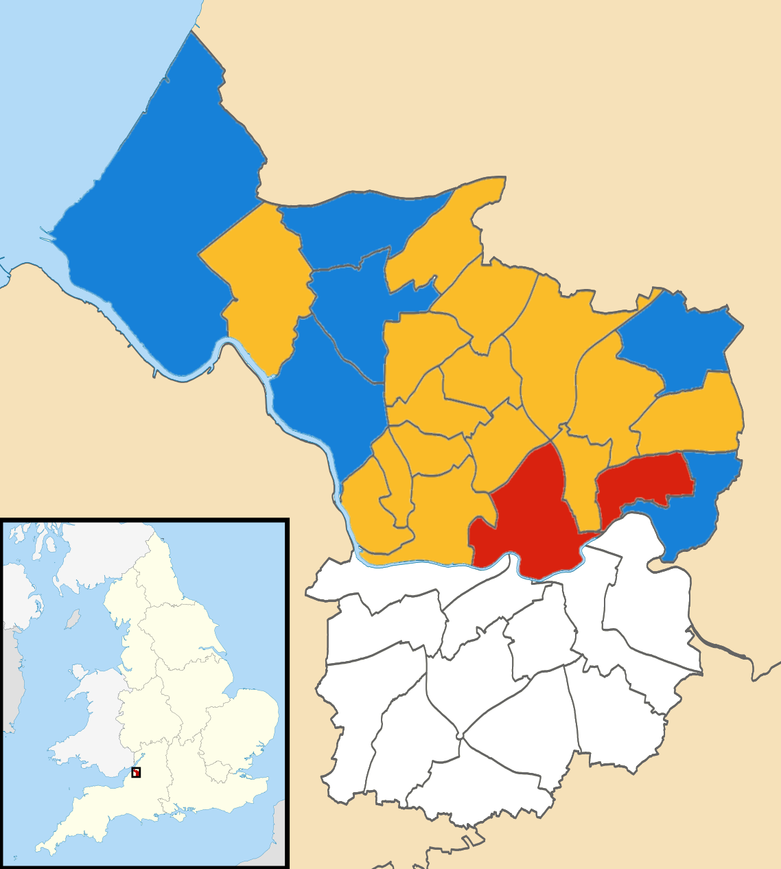 Results of the 2009 local elections in Bristol Conservative Labour Liberal Democrat No election in 2009